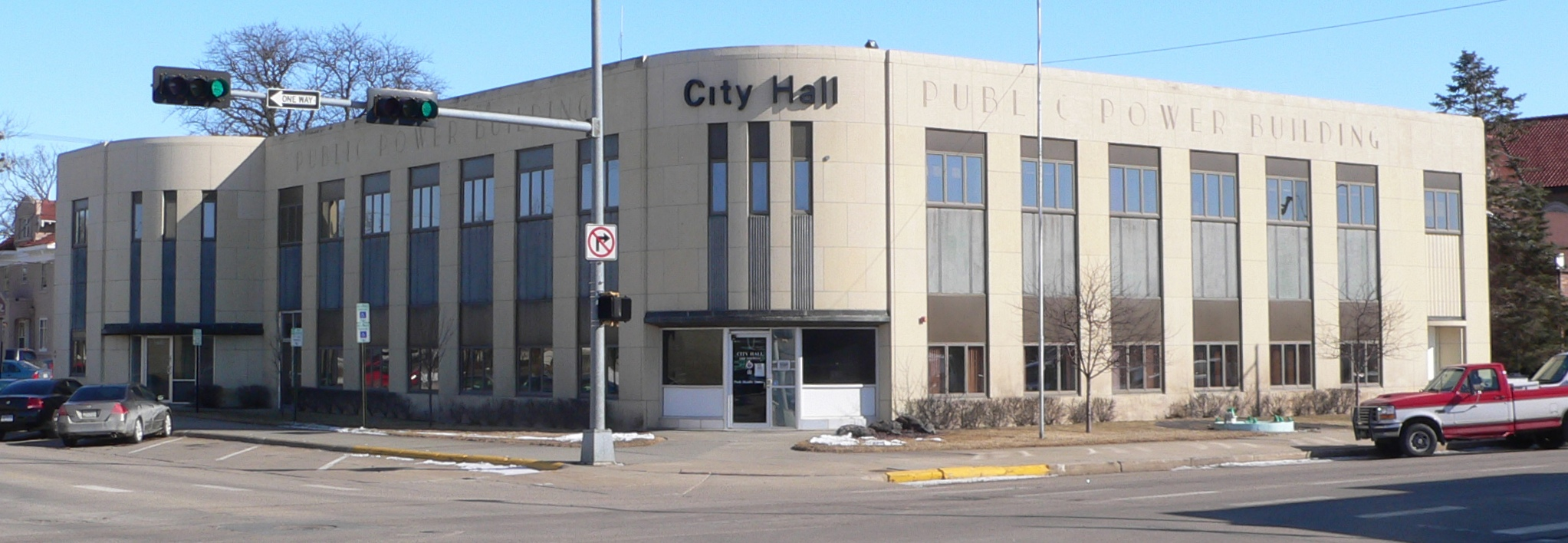 Columbus, Nebraska city hall, formerly Public Power Building, located at 2424 14th Street (northeast corner of 14th Street and 25th Avenue); seen from the southwest.